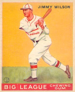 1933 Goudey baseball card of Jimmy "Jimmie" Wilson of the St. Louis Cardinals #37. PD-not-renewed.